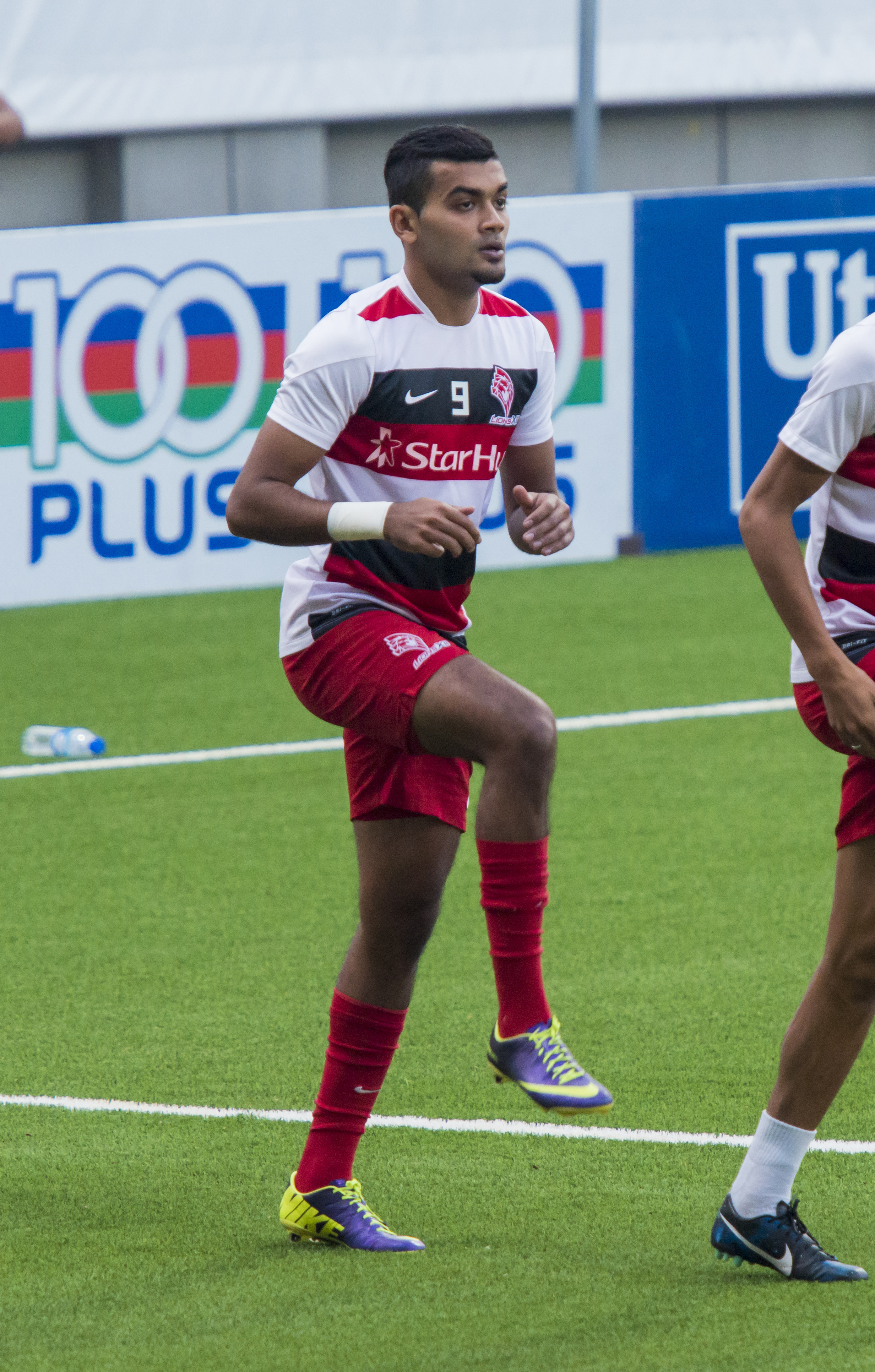 faritz hameed msl 2014 lionsxii kelantan fa